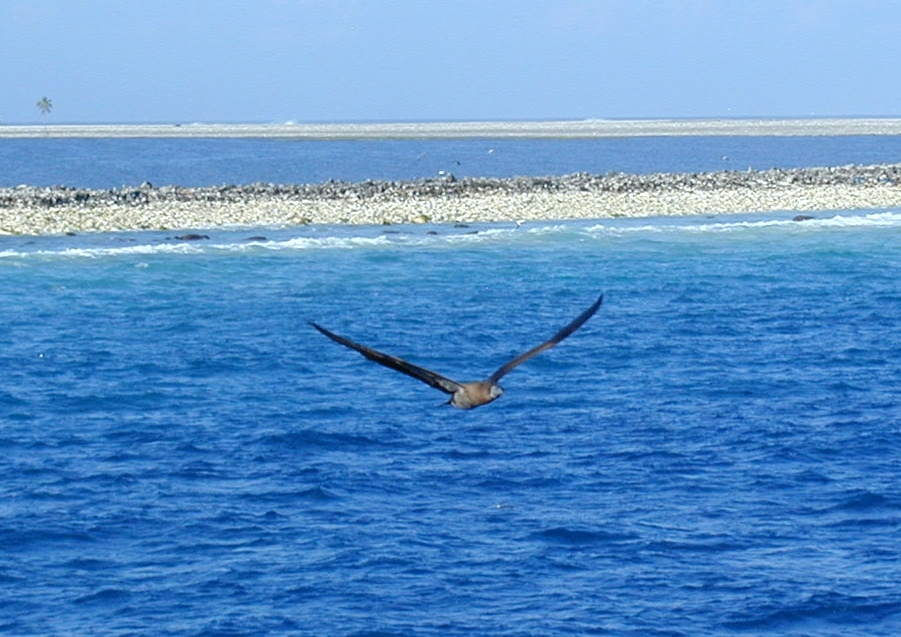 Brown Booby in flight and lone palm tree across lagoon of Clipperton Island, Pacific Ocean